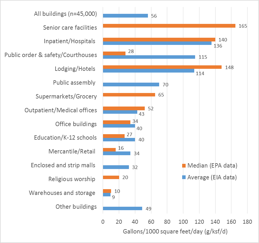 Bar chart with WUI metrics